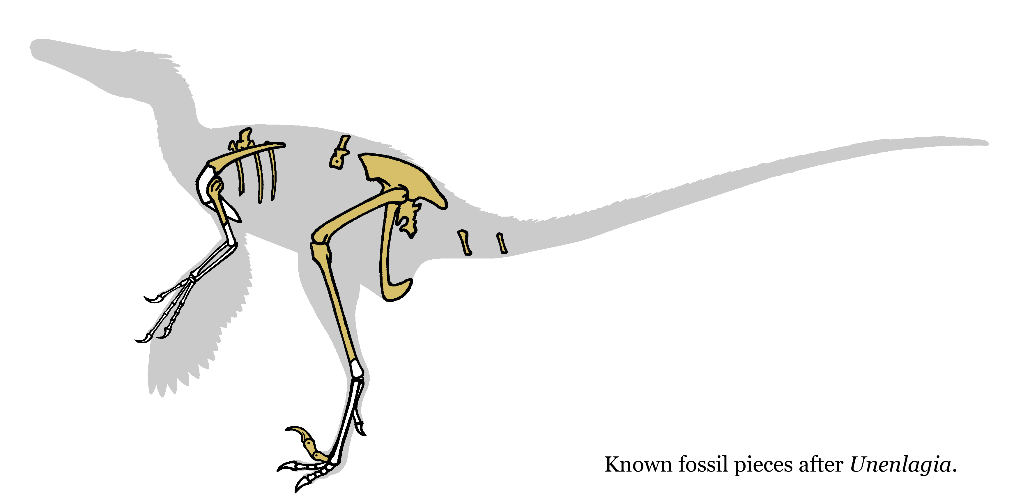 Diagram showing what so far is known from the theropod dinosaur Unenlagia comahuensis, found in Argentina, and namned 1997. The diagram used as reference to this one can be seen at [1] and [2].